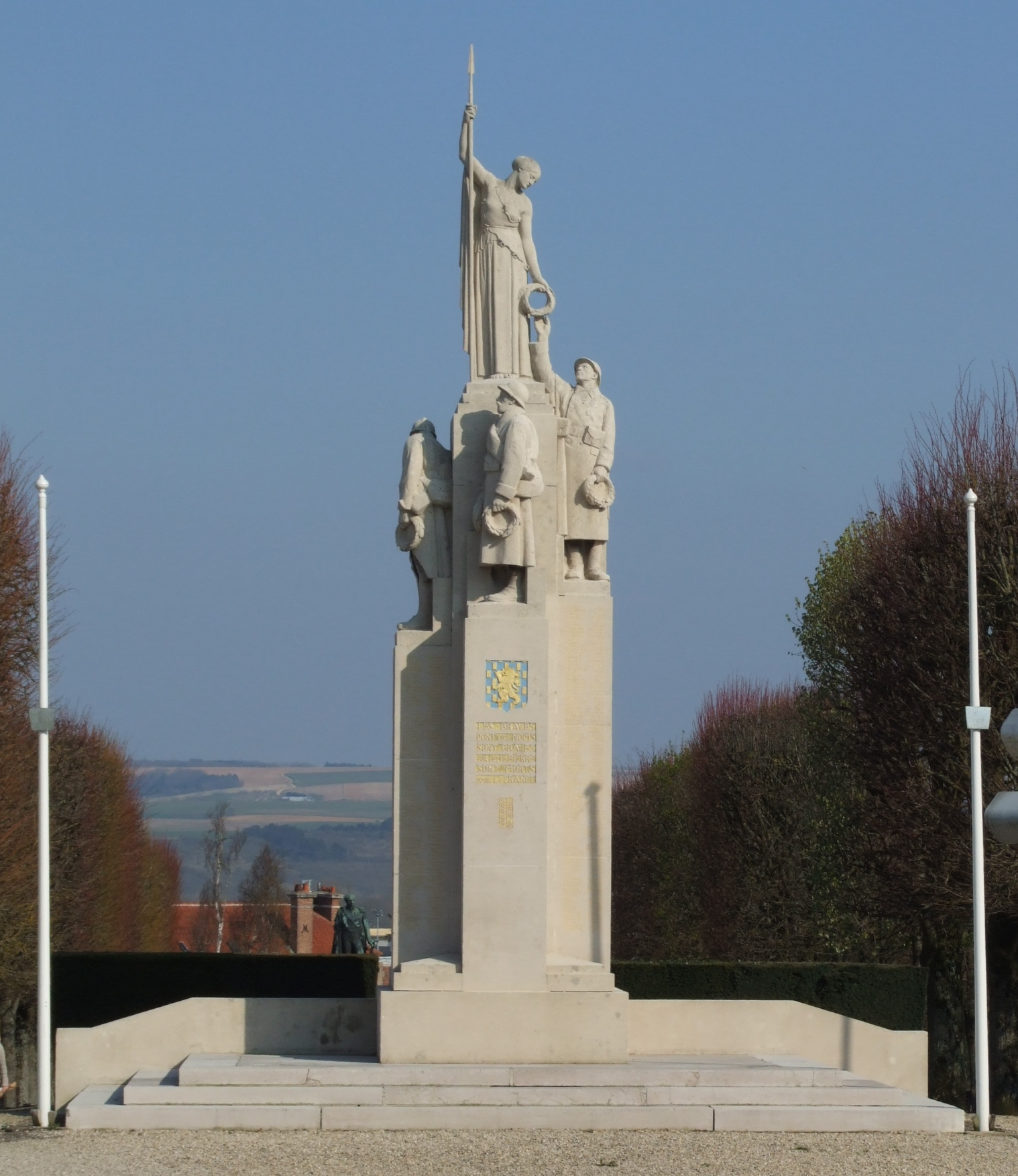 War memorial, Auxerre, Burgundy, FRANCE